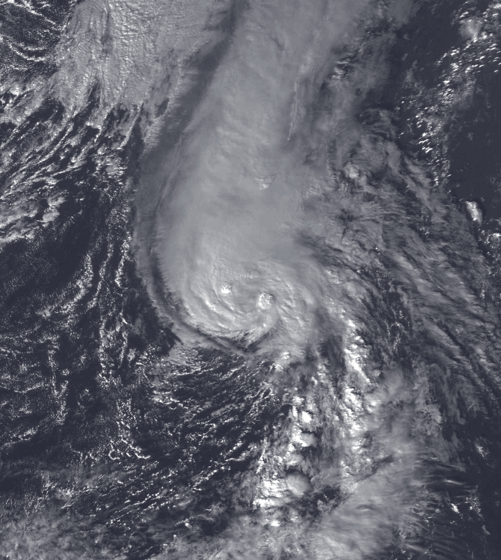 Hurricane Nicole near peak intensity over the northeastern Atlantic Ocean on November 30, 1998